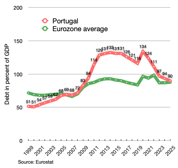 Portuguese debt history since 1999. 1999-2011: Eurostat data: (see "General government gross debt") (see also: 2010-2015: Eurostat data: (latest update: October 2013) 2016-2017: Once Ernst & Young updates their forecasts, then we could use their data as well: 2015-2016 estimates from Ernst & Young using data from Oxford Economics ; (latest update: June 2012)